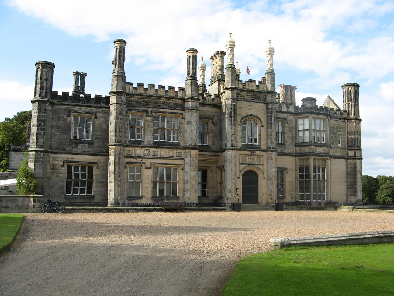 South front of Dalmeny House, near Edinburgh, Scotland.